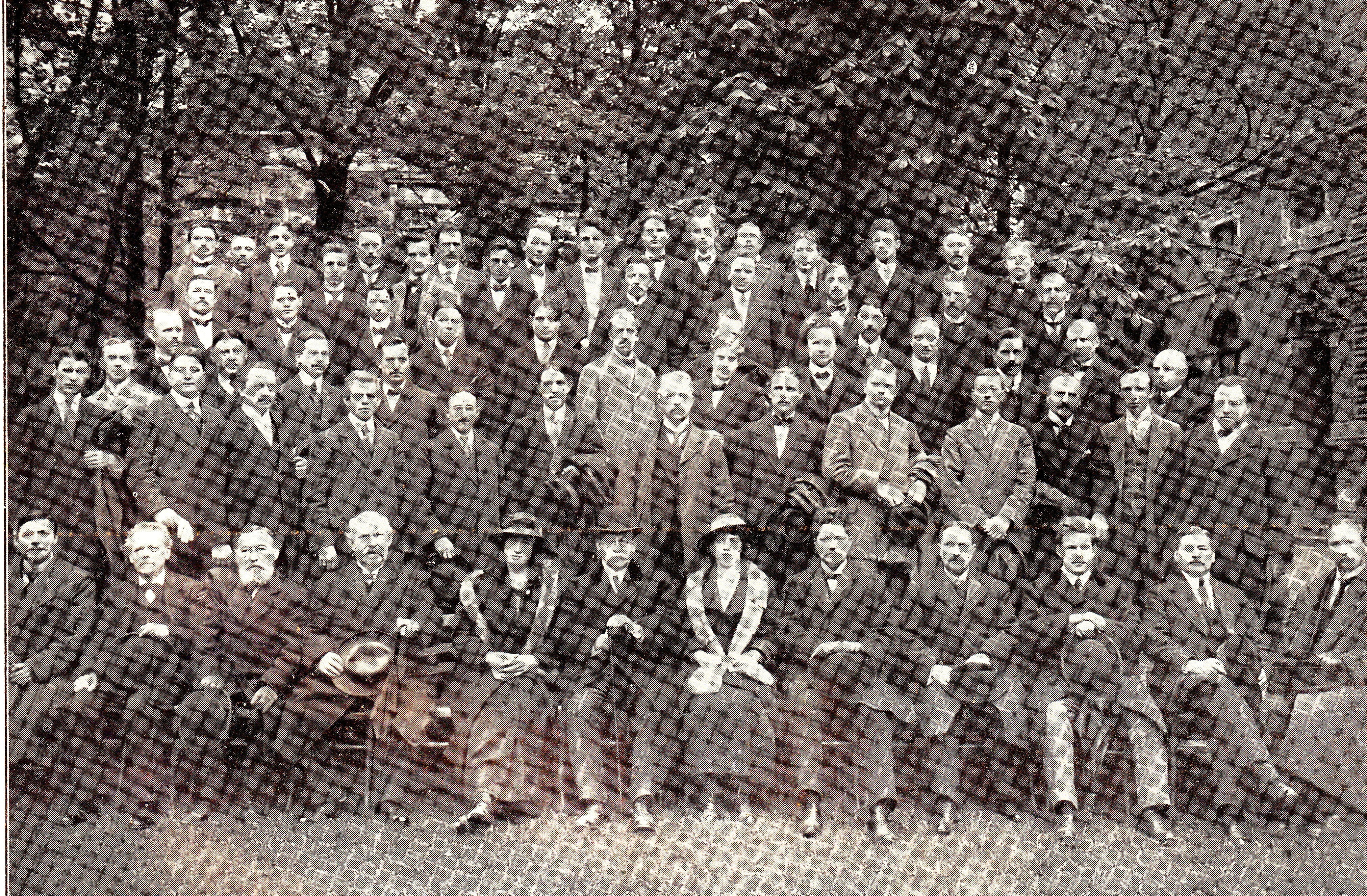 Residentieorkest in 1914